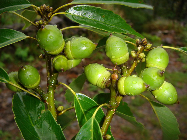 ring-cupped Acorn